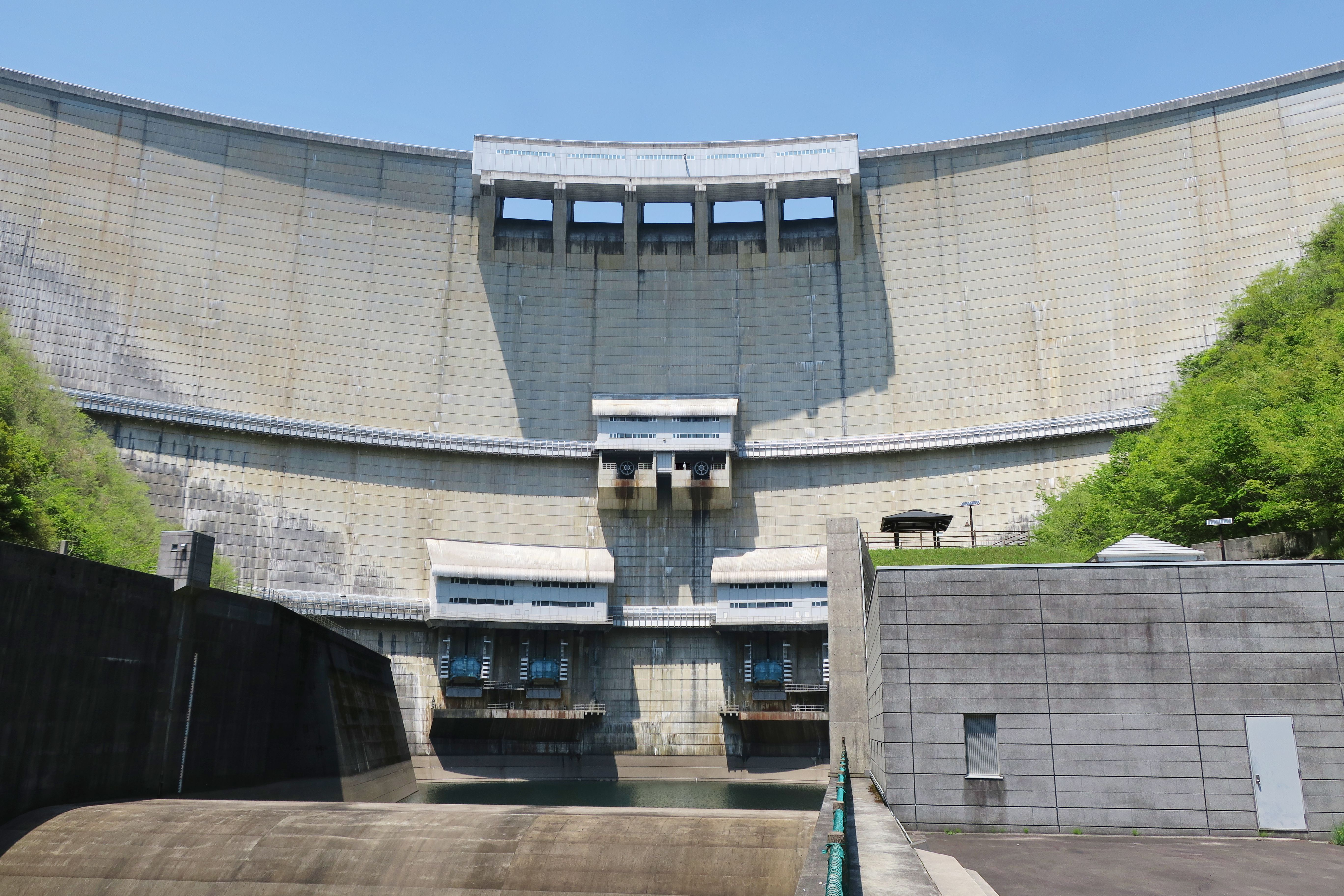 Nukui Dam.